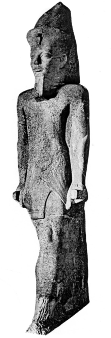 Colossal statue of Senusret IV, discovered by Georges Legrain in Karnak. The statue is 2m 75 cm high and is made of pink granite.